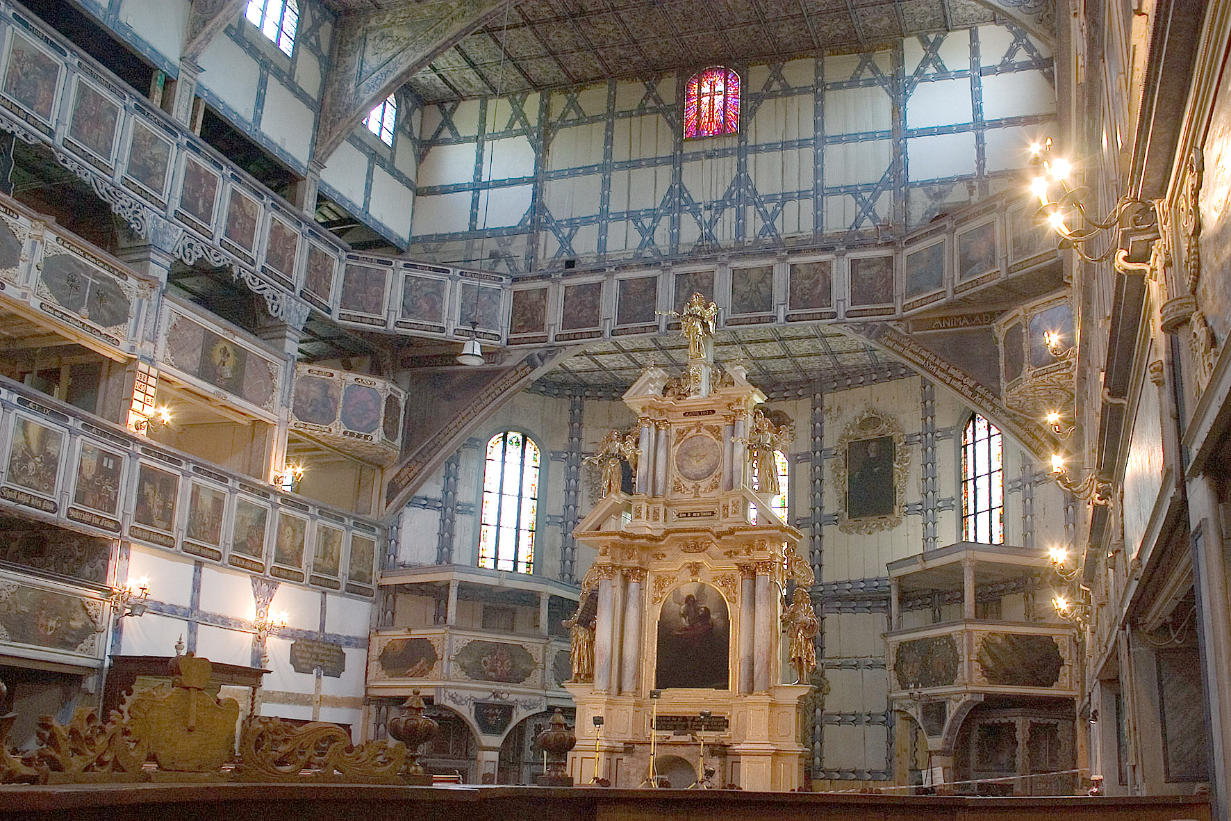 Church of Peace in Jawor, Poland Author: Adam Kumiszcza